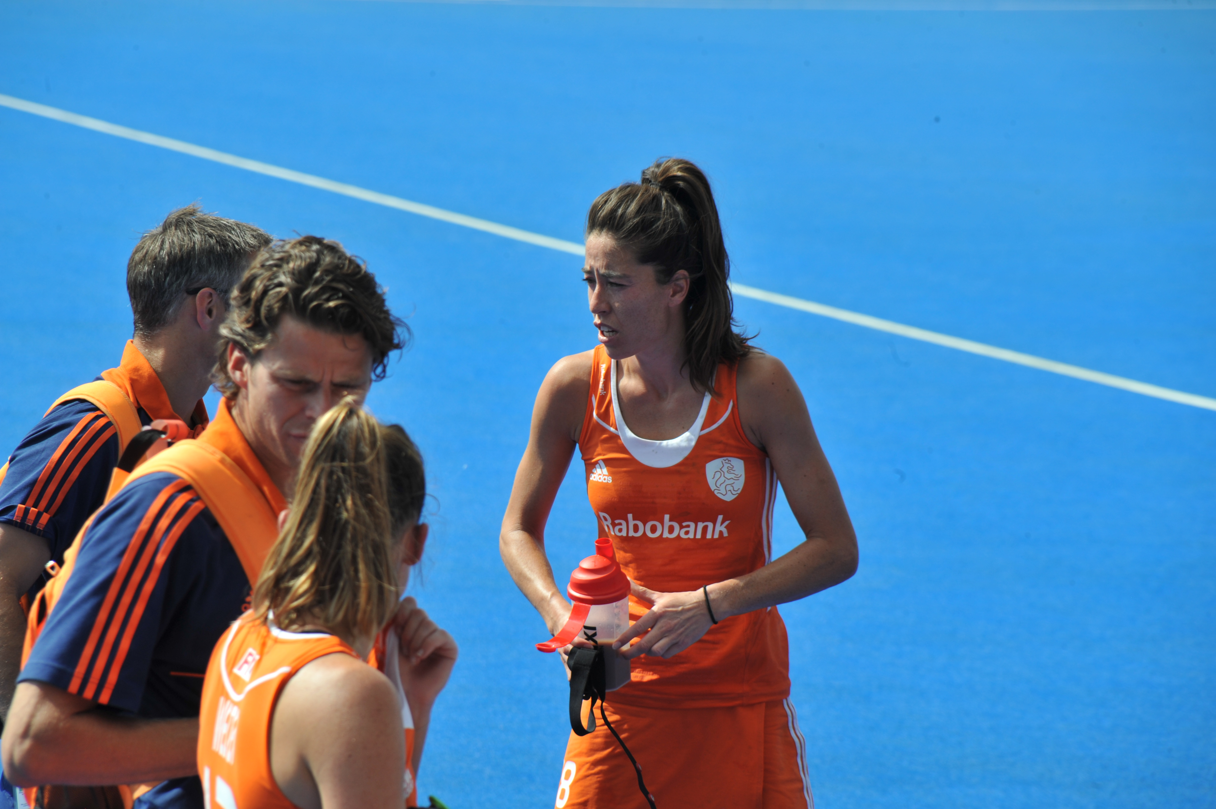 Netherlands v Poland - Eurohockey 2015